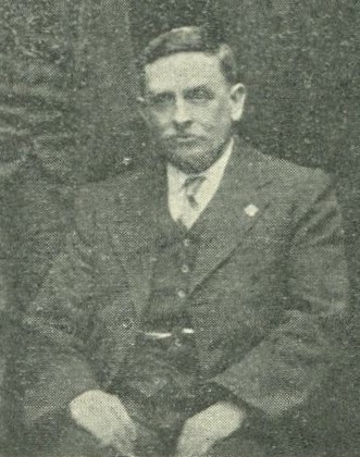 Robert Morley, Yorkshire Divisional Organiser of the Workers' Union, at a meeting of the union's Doncaster Branch Committee in 1916